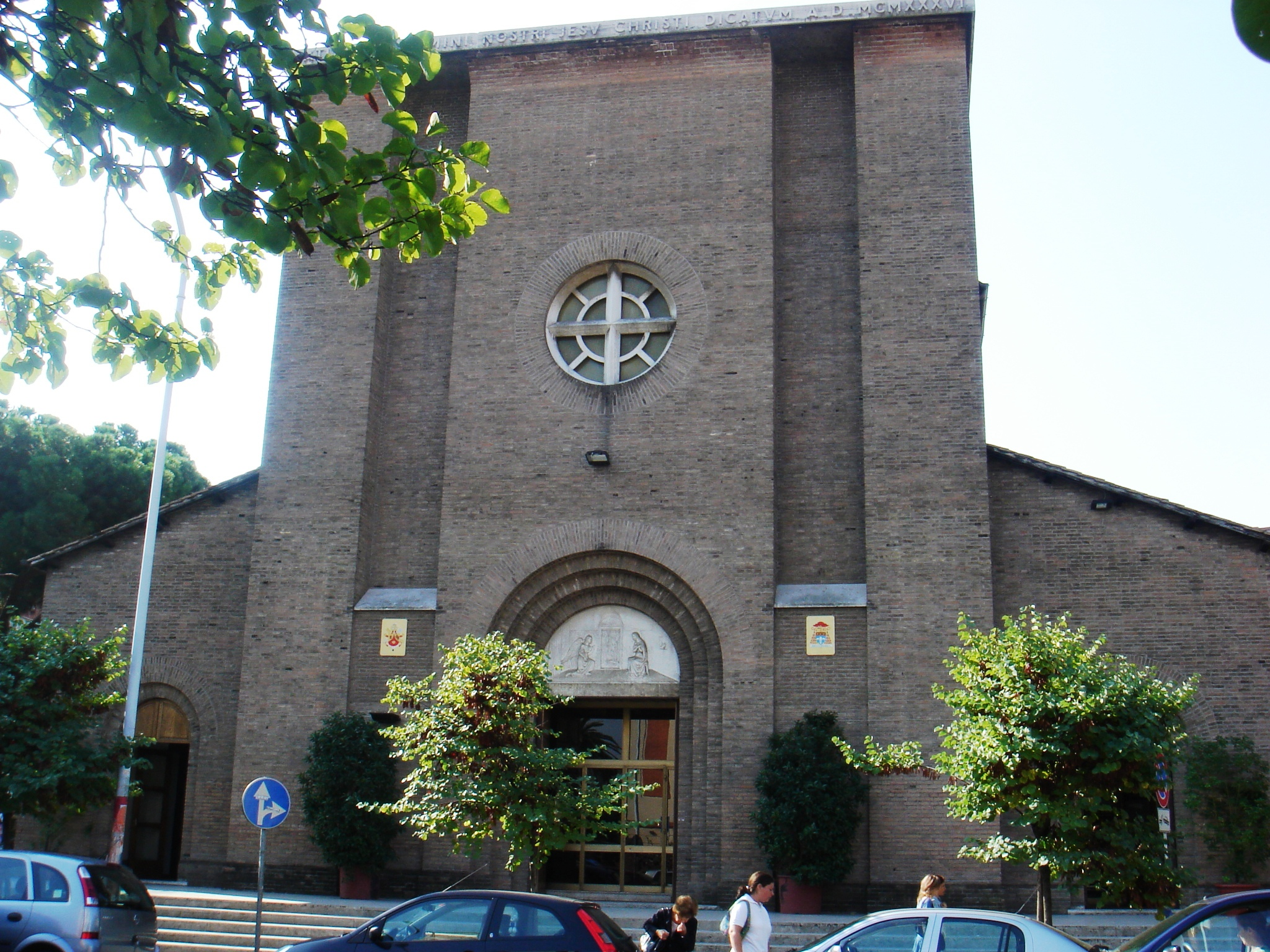 Rome, Church of the Nativity, via Gaul